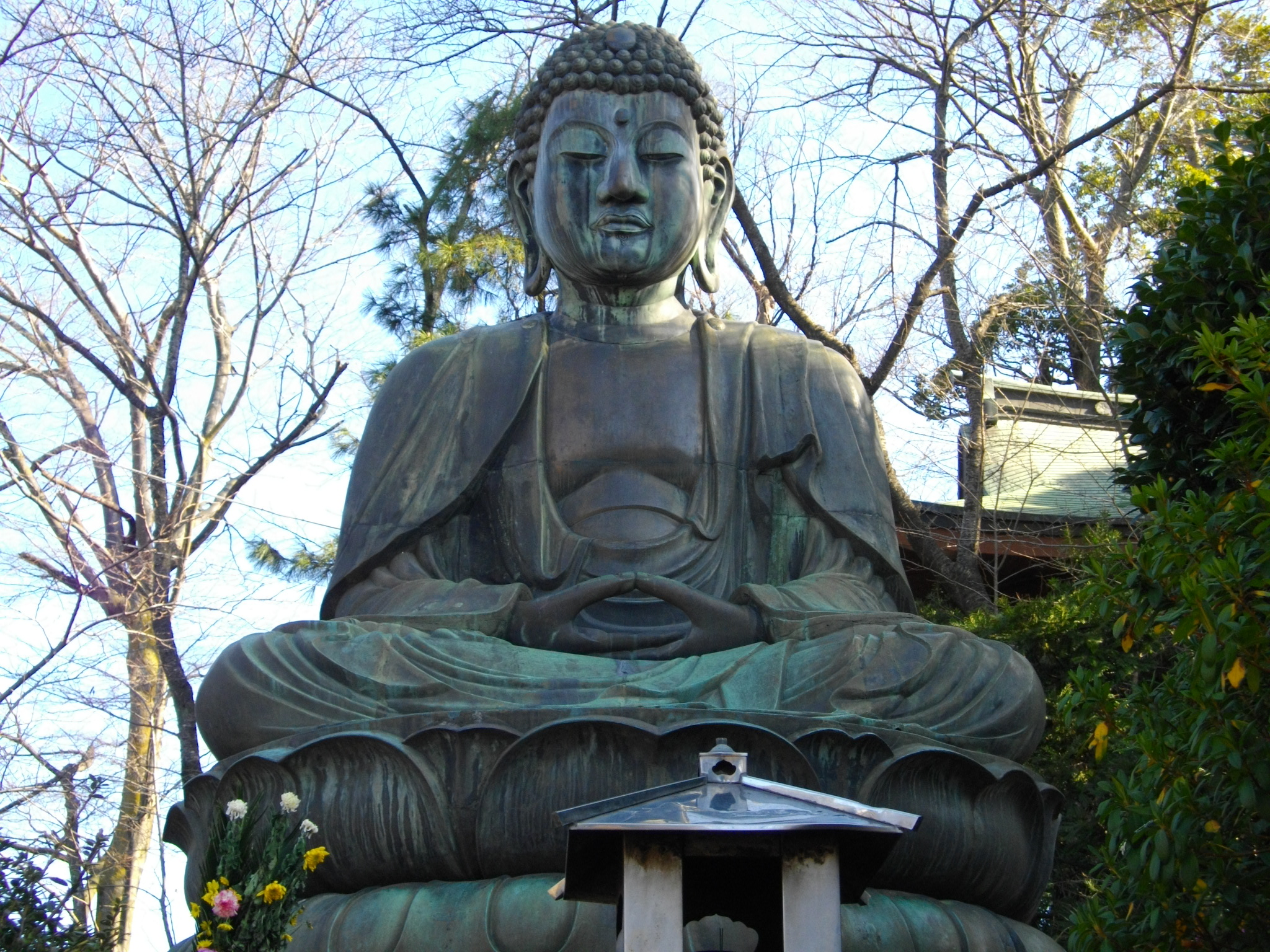 Nakayama Daibutsu